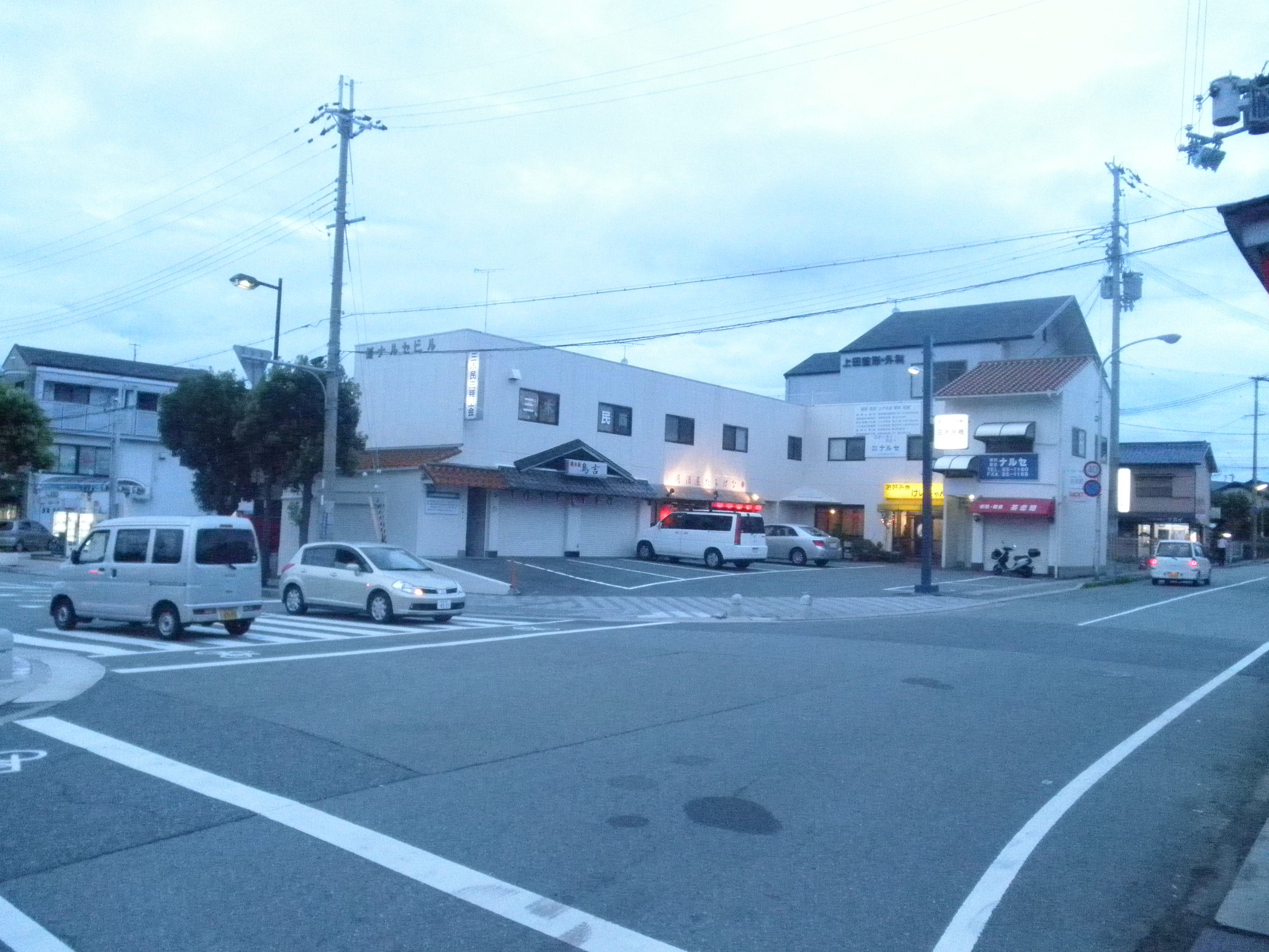 Midorigaokatown-honmachi1 Mikicity Hyogopref